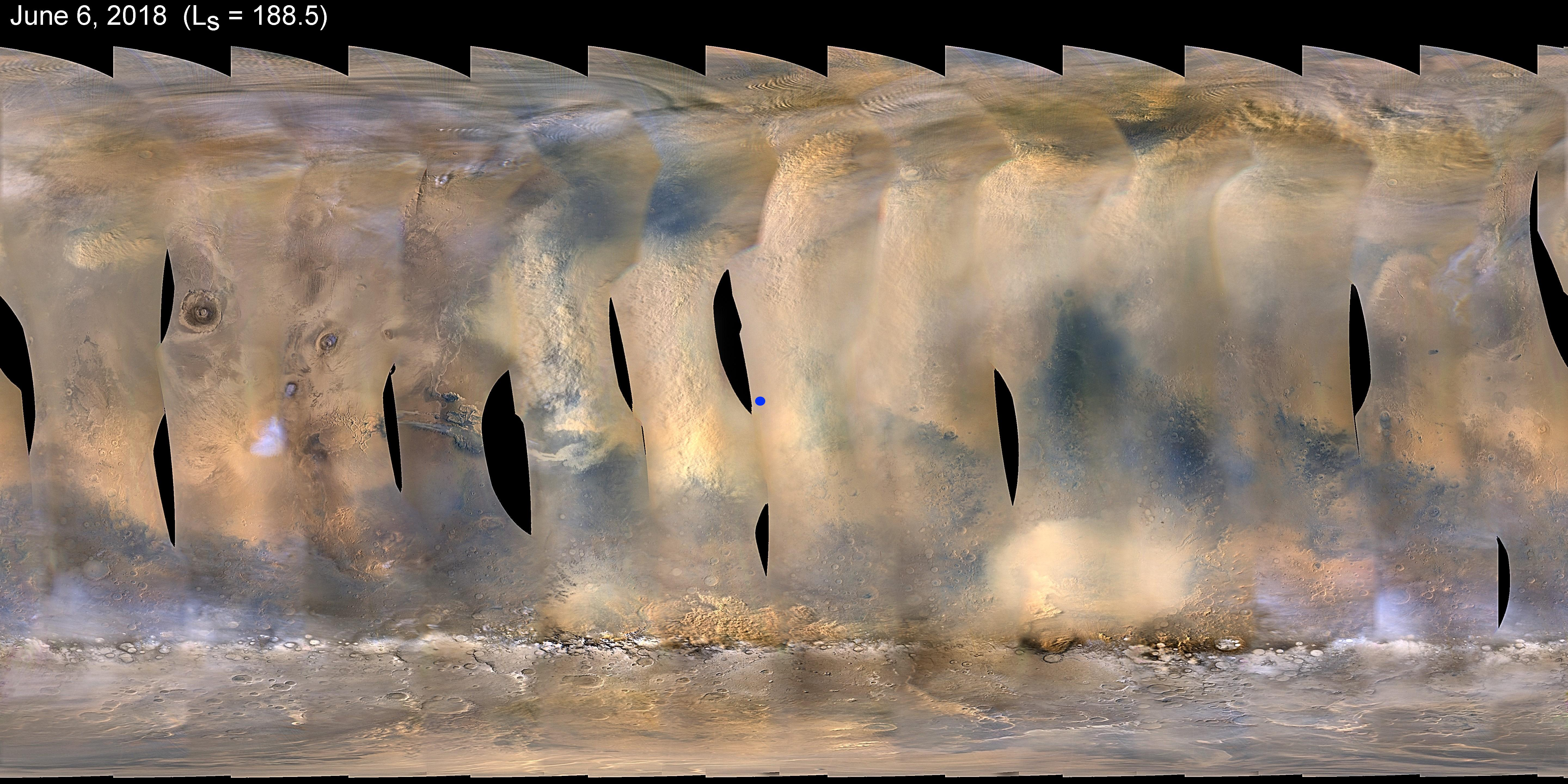 PIA22329: Dust Storm Covers Opportunity This global map of Mars shows a growing dust storm as of June 6, 2018. The map was produced by the Mars Color Imager (MARCI) camera on NASA's Mars Reconnaissance Orbiter spacecraft. The blue dot shows the approximate location of Opportunity. The storm was first detected on June 1. The MARCI camera has been used to monitor the storm ever since. Full dust storms like this one are not surprising, but are infrequent. They can crop up suddenly but last weeks, even months. During southern summer, sunlight warms dust particles, lifting them higher into the atmosphere and creating more wind. That wind kicks up yet more dust, creating a feedback loop that NASA scientists still seek to understand. Malin Space Science Systems, San Diego, provided and operates MARCI. NASA's Jet Propulsion Laboratory, a division of Caltech in Pasadena, California, manages the Mars Reconnaissance Orbiter for NASA's Science Mission Directorate, Washington. Lockheed Martin Space Systems, Denver, built the spacecraft.